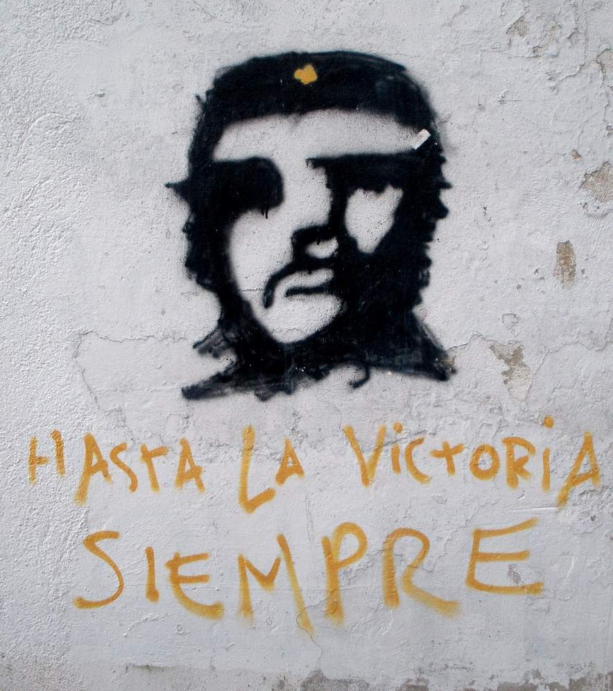 Graffiti en el barrio de Santa Lucía de Vitoria-Gasteiz